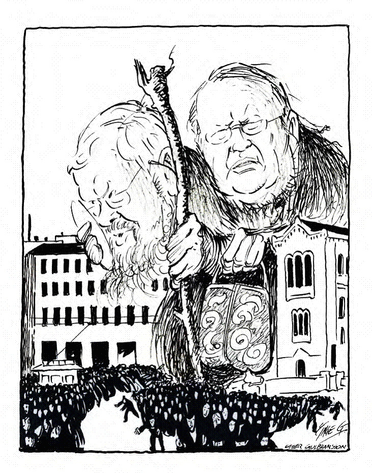 A modernized caricature drawing, by Inge Grødum, inspired by «Måltrollene rykker ind i Christiania», a caricature drawing by Olaf Guldbrandsen from 1899.